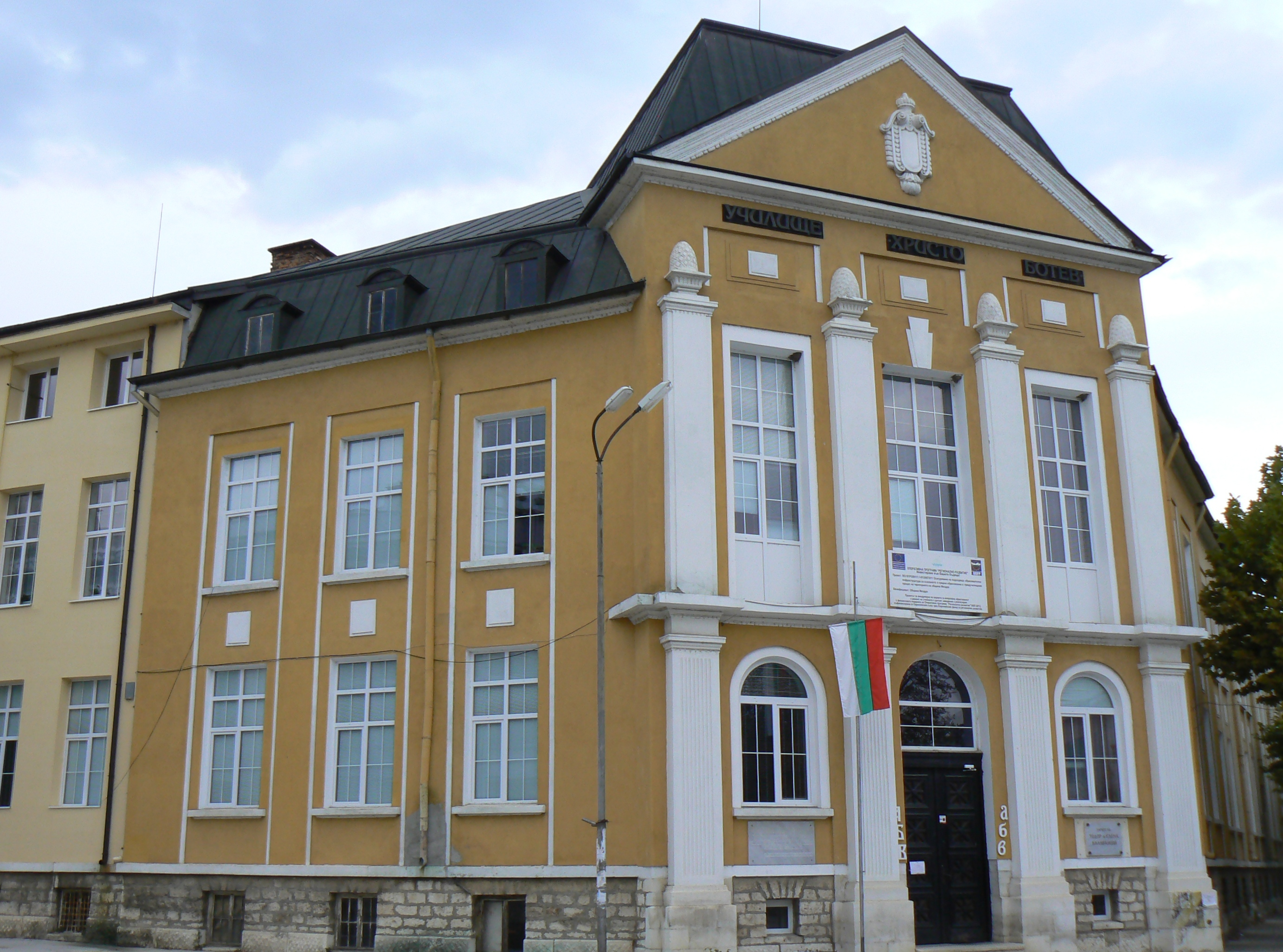 School "Hristo Botev" in Mezdra, Bulgaria